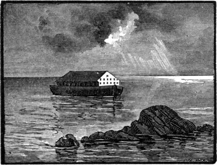 Noah's Ark